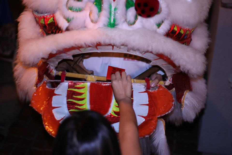 PALSO Lunar New Year Party, Taken Feb 2012